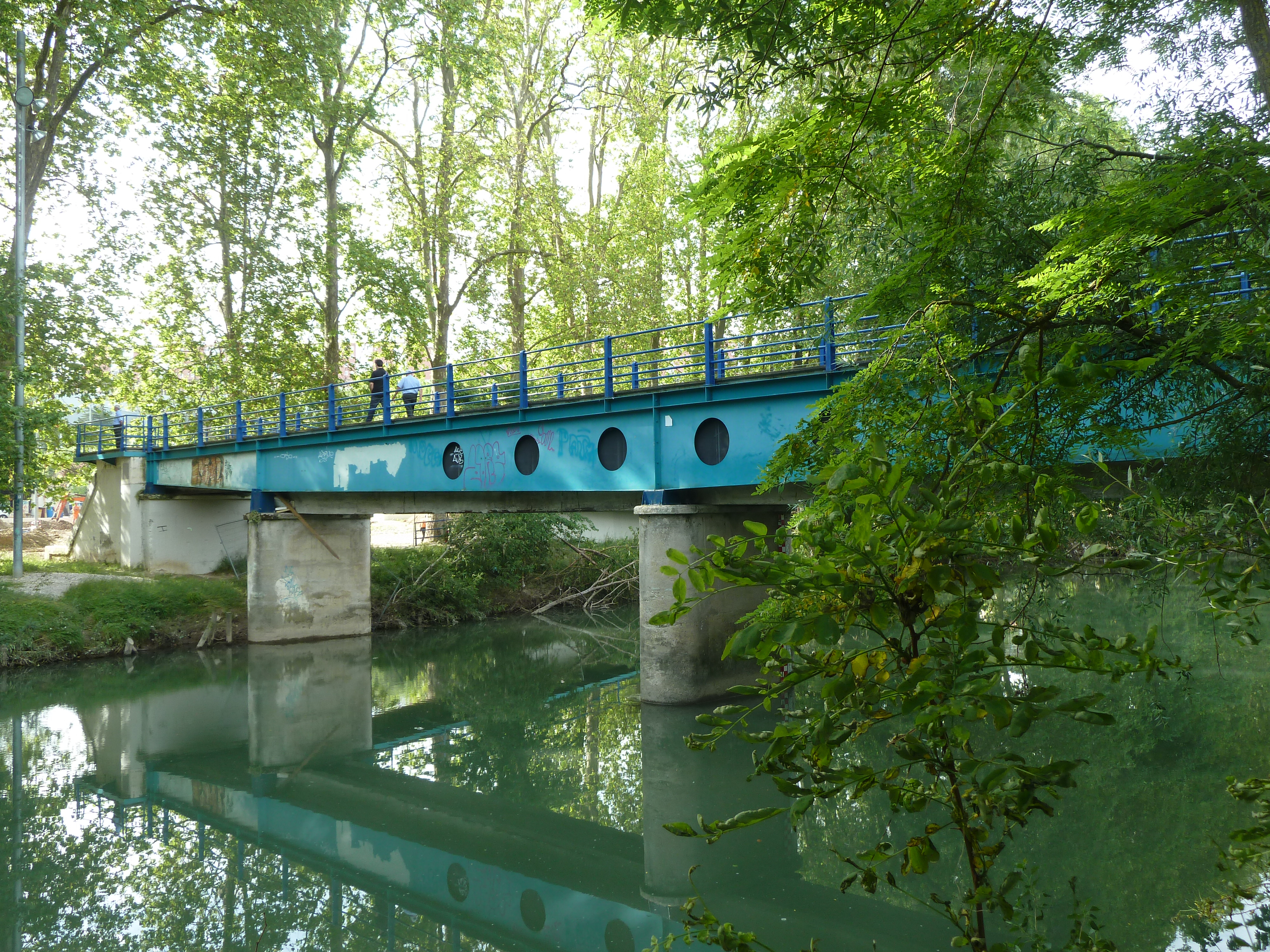 San Jorge/Sanduzelai (Pamplona/Iruña) It was built in the years 1930-1940 in reinforced concrete with iron railings. Its main objective was the passage over the river of a large water pipe. It also allowed the crosswalk through two passageways on each side of said pipe. On the occasion of the recent works of Pamplona Riverside Park has been restored as a pedestrian walkway.